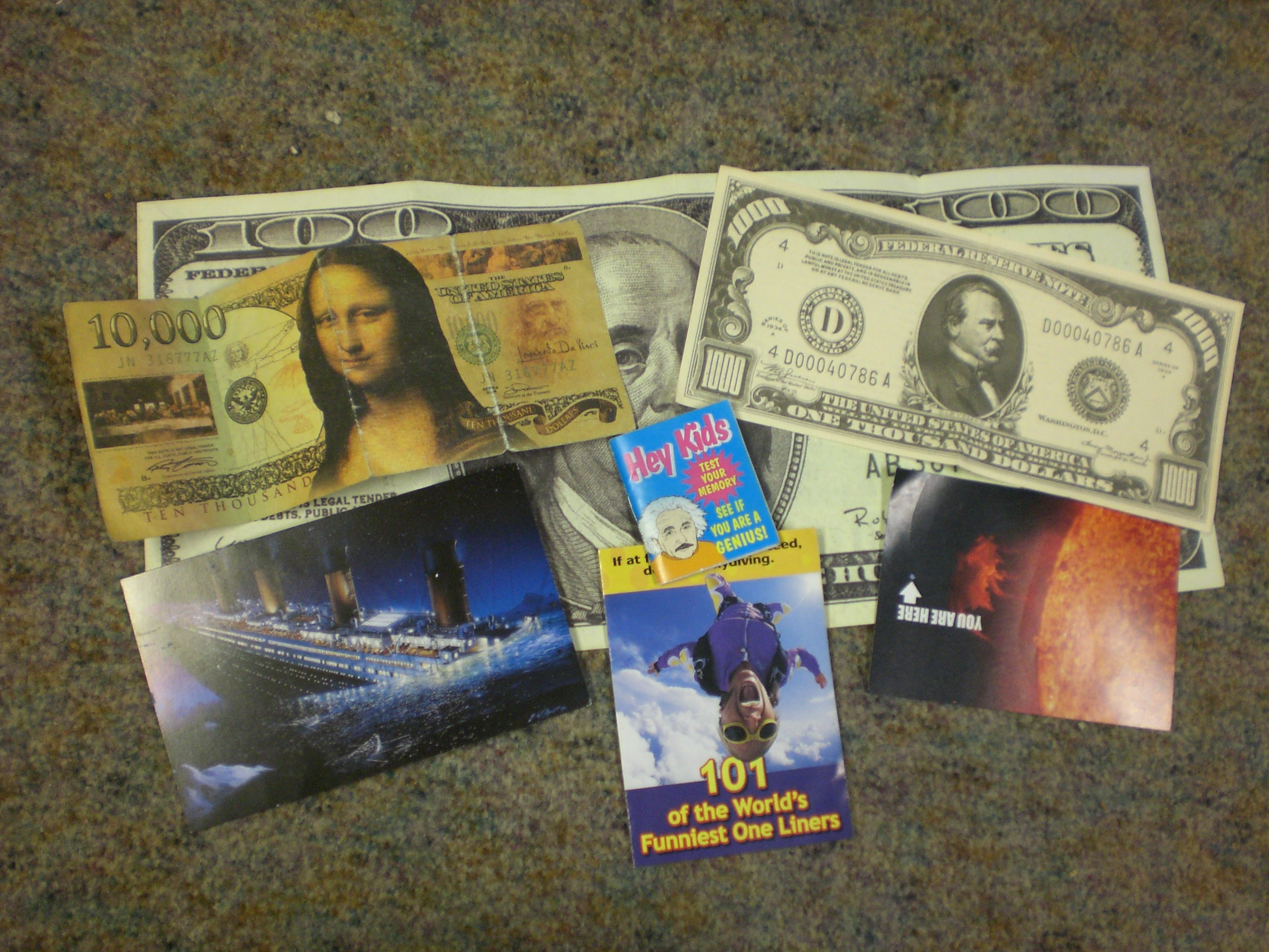 A collection of Gospel tracts created by Living Waters Publications.